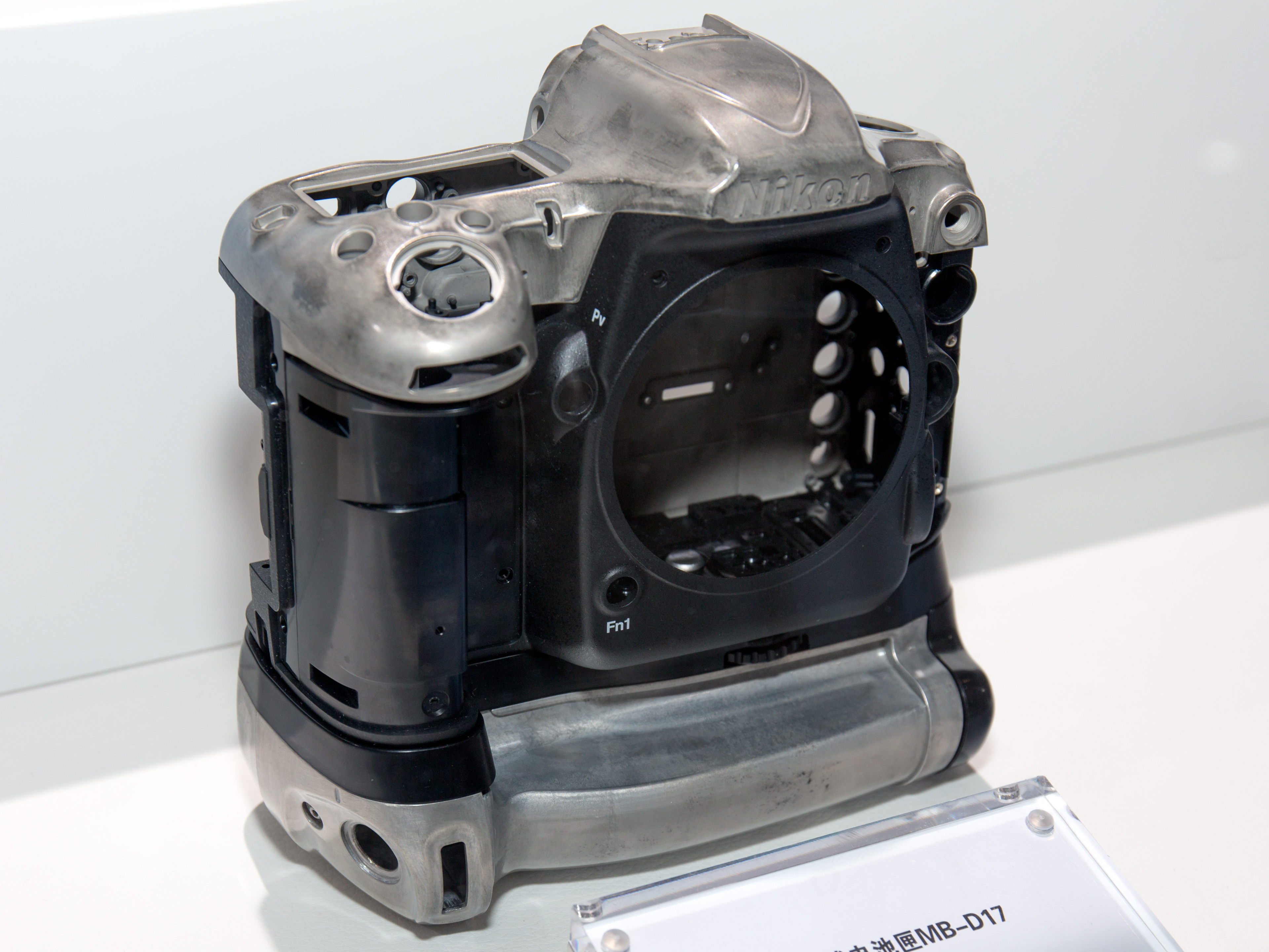 P&E China 2016: 2016 Nikon D500 chassis (magnesium alloy and carbon-fiber-reinforced-plastic)